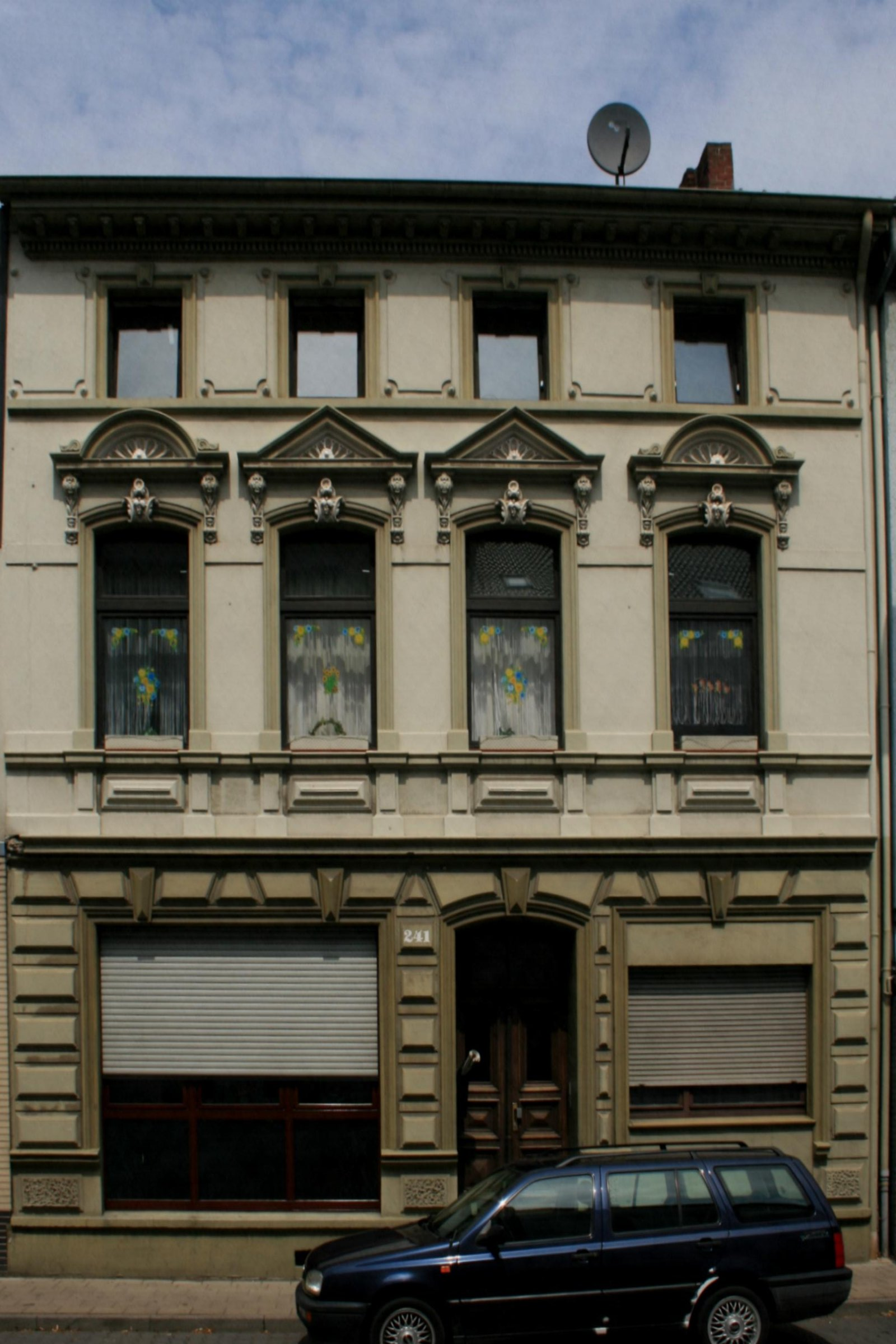 Cultural heritage monument No. H 042 in Mönchengladbach